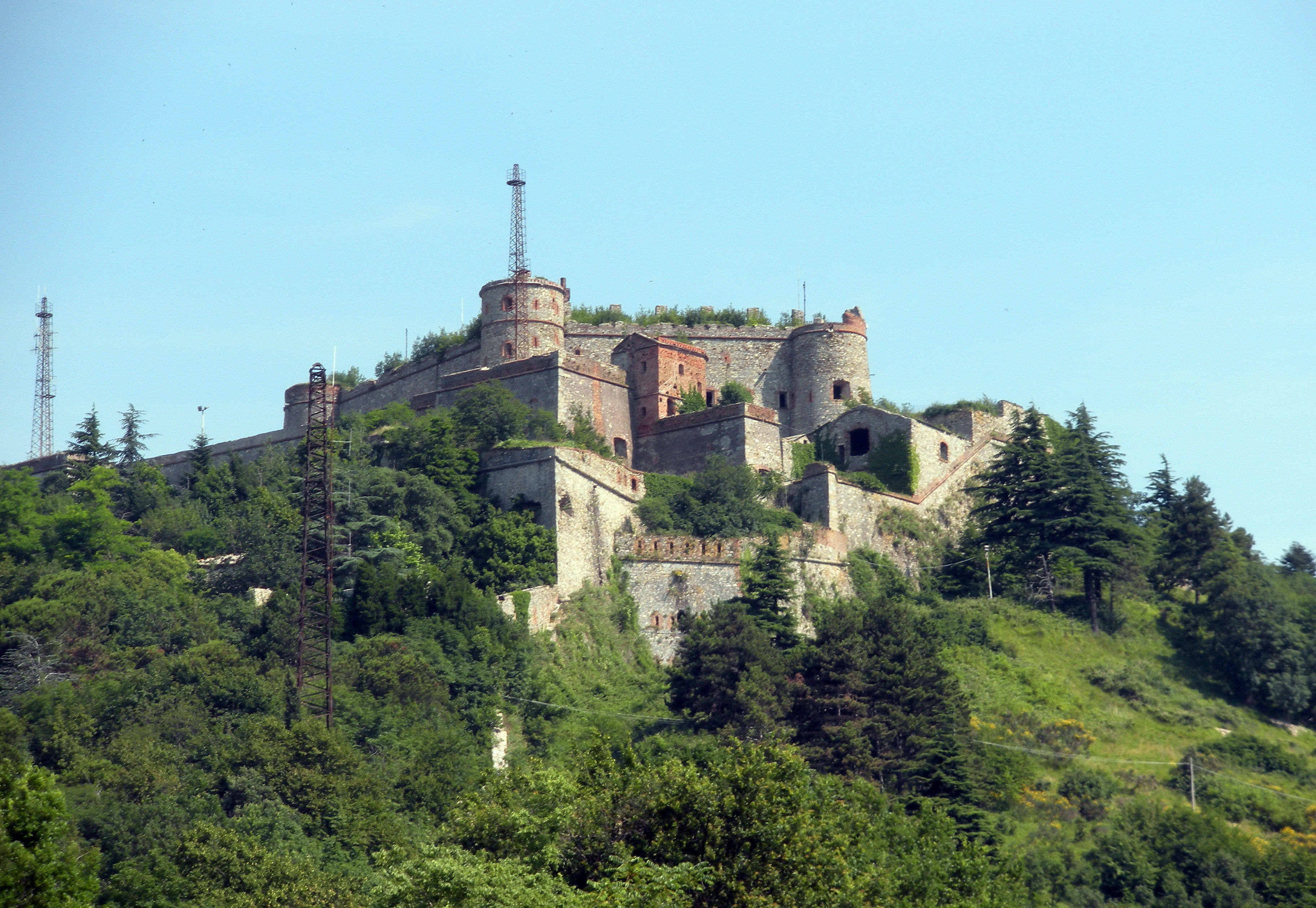 Genoa, view of fort Sperone